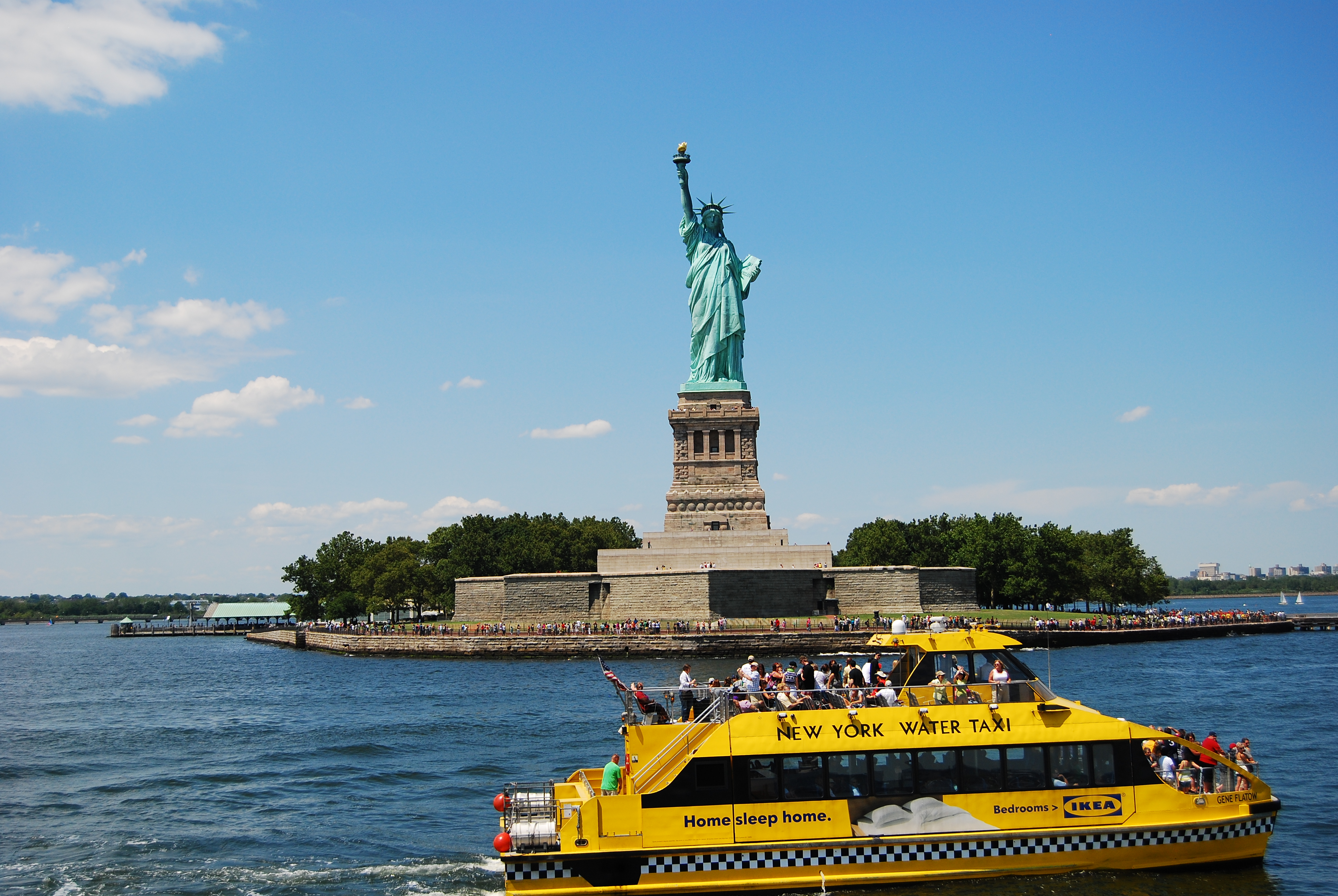 Manhattan - New York City - NY - EUA Statue of Liberty